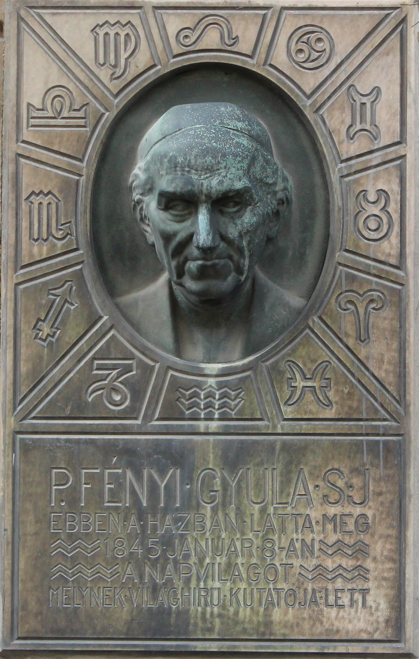 Commemorative plaque on birthplace of Gyula Fényi (1845–1927). (Hungary, Sopron, Szentlélek u. 3.)